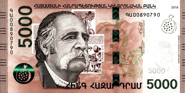 5000 dram 2018 Obverse